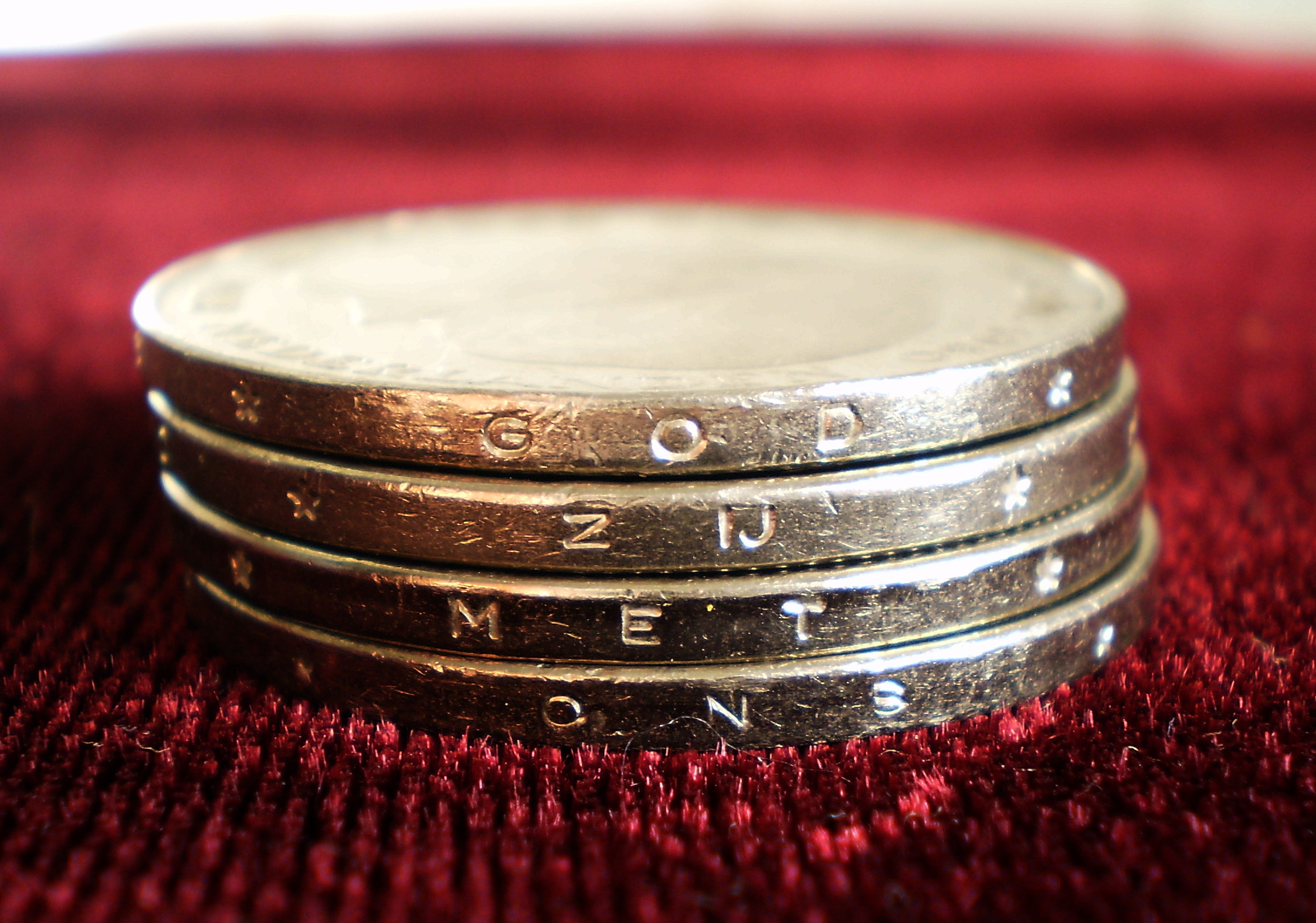 Four Dutch rijksdaalders with the text "God be with us" engraved on their edges